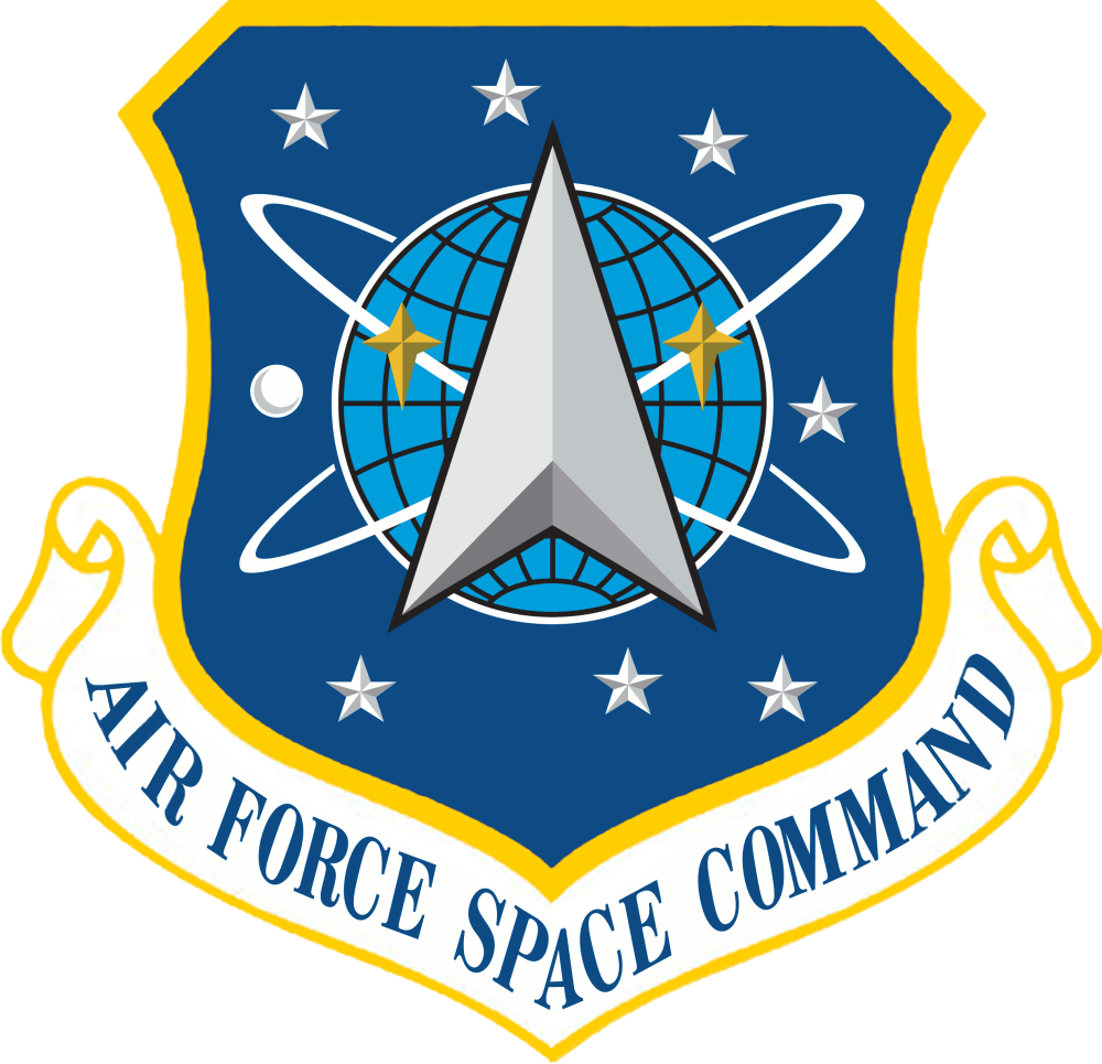 Emblem of Air Force Space Command of the United States Air Force